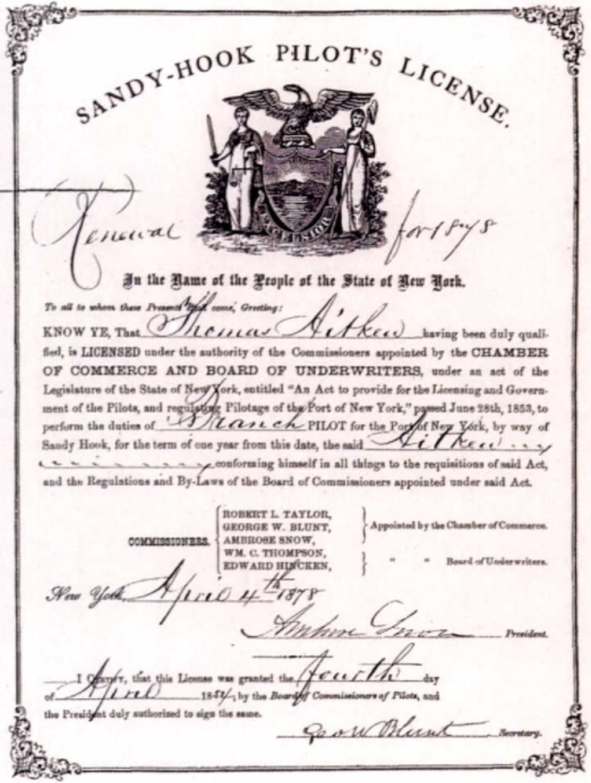 Sandy Hook Pilot's License (1854). Signed by Secretary George W. Blunt of the Board of Commissioners of Pilots.